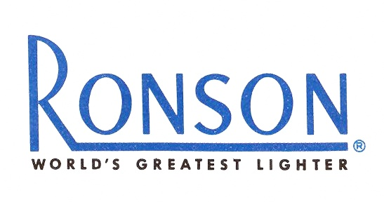 1954 Ronson Trademark